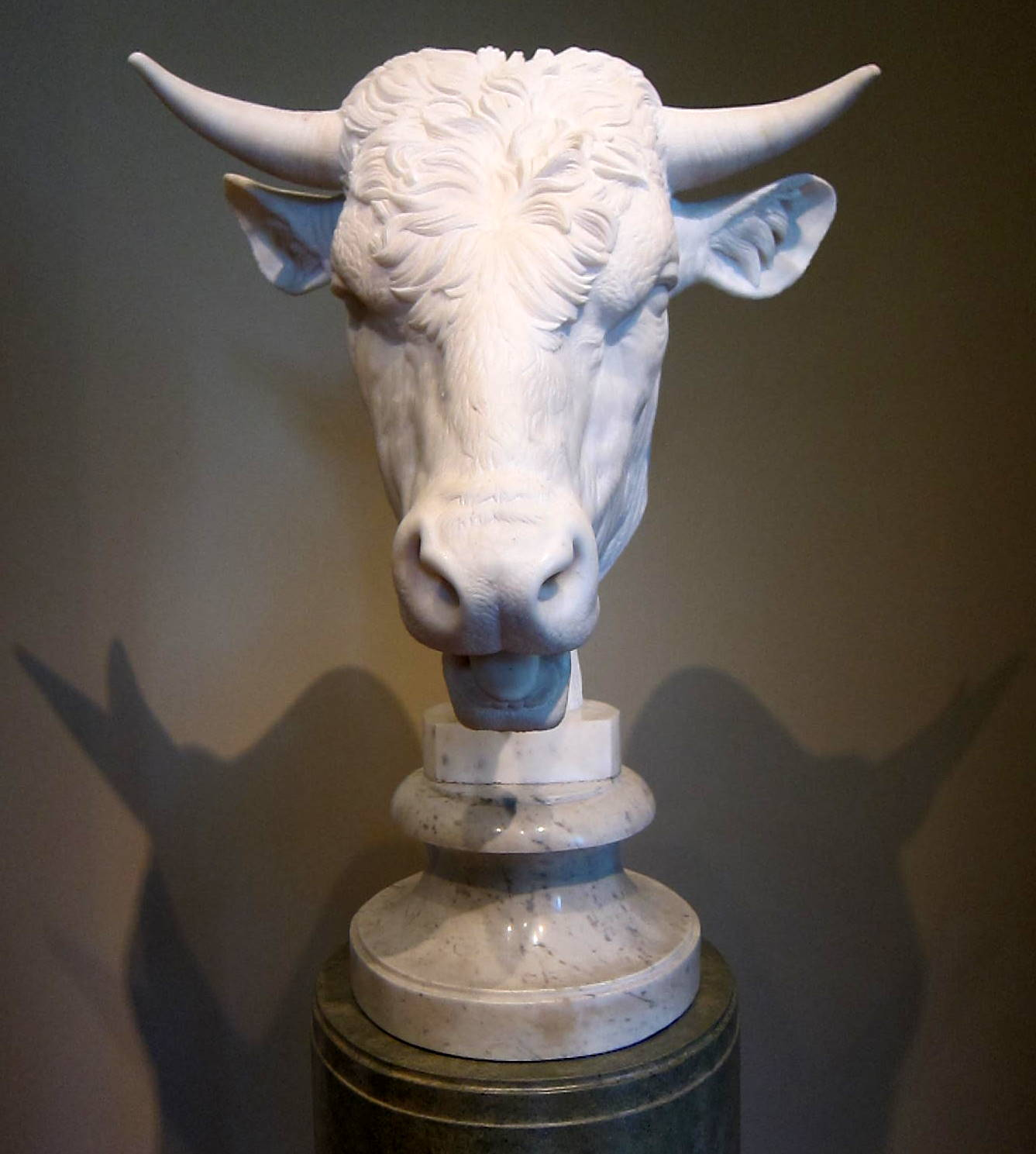 Head of a Bull (1824, Gaetano Monti) located in the National Gallery of Art's West Building in Washington, D.C.